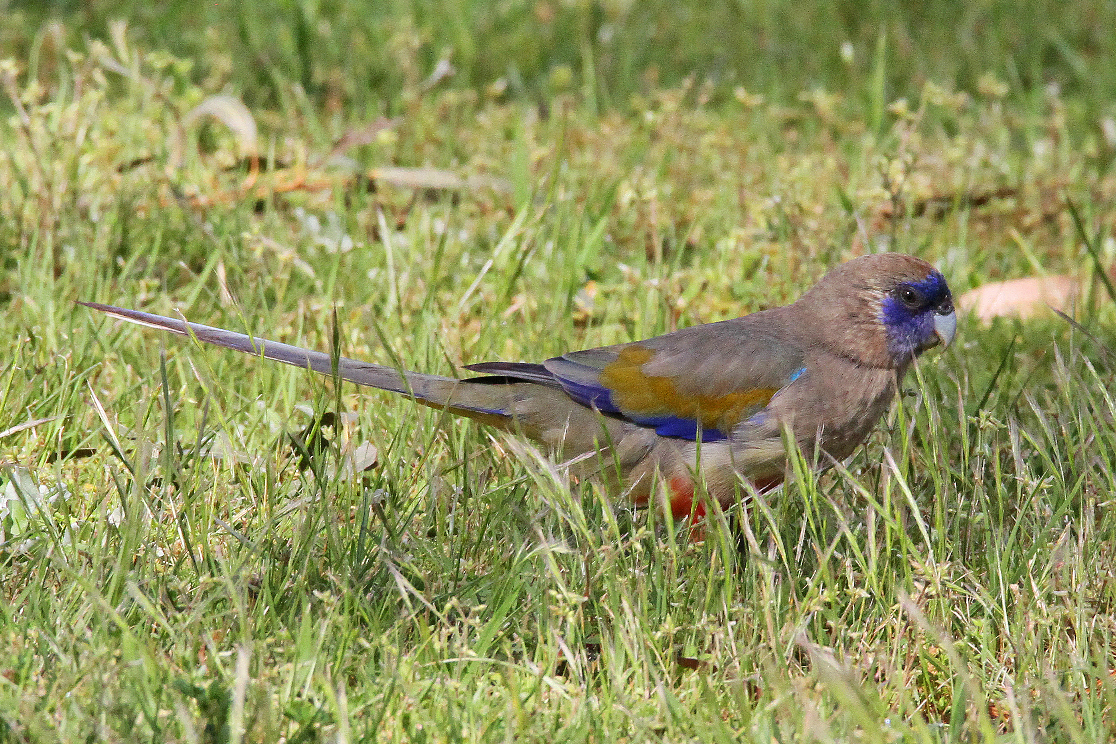 photo of Eastern Bluebonnet